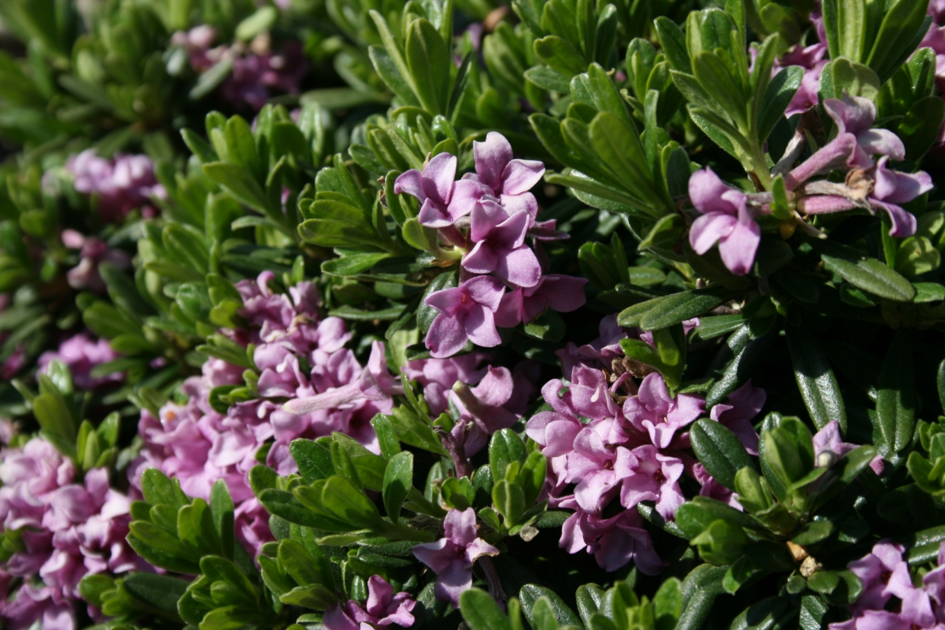 Daphne sericea: Flowering plant